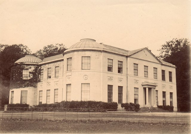 Herstmonceux Place Herstmonceux Place in the 19th century. It is now divided into flats. The north front of the house (not visible in this photo) was built in the late 17th century. The south and east fronts (seen here) were designed by Samuel Wyatt in 1778. The stucco rendering was removed about 1900.